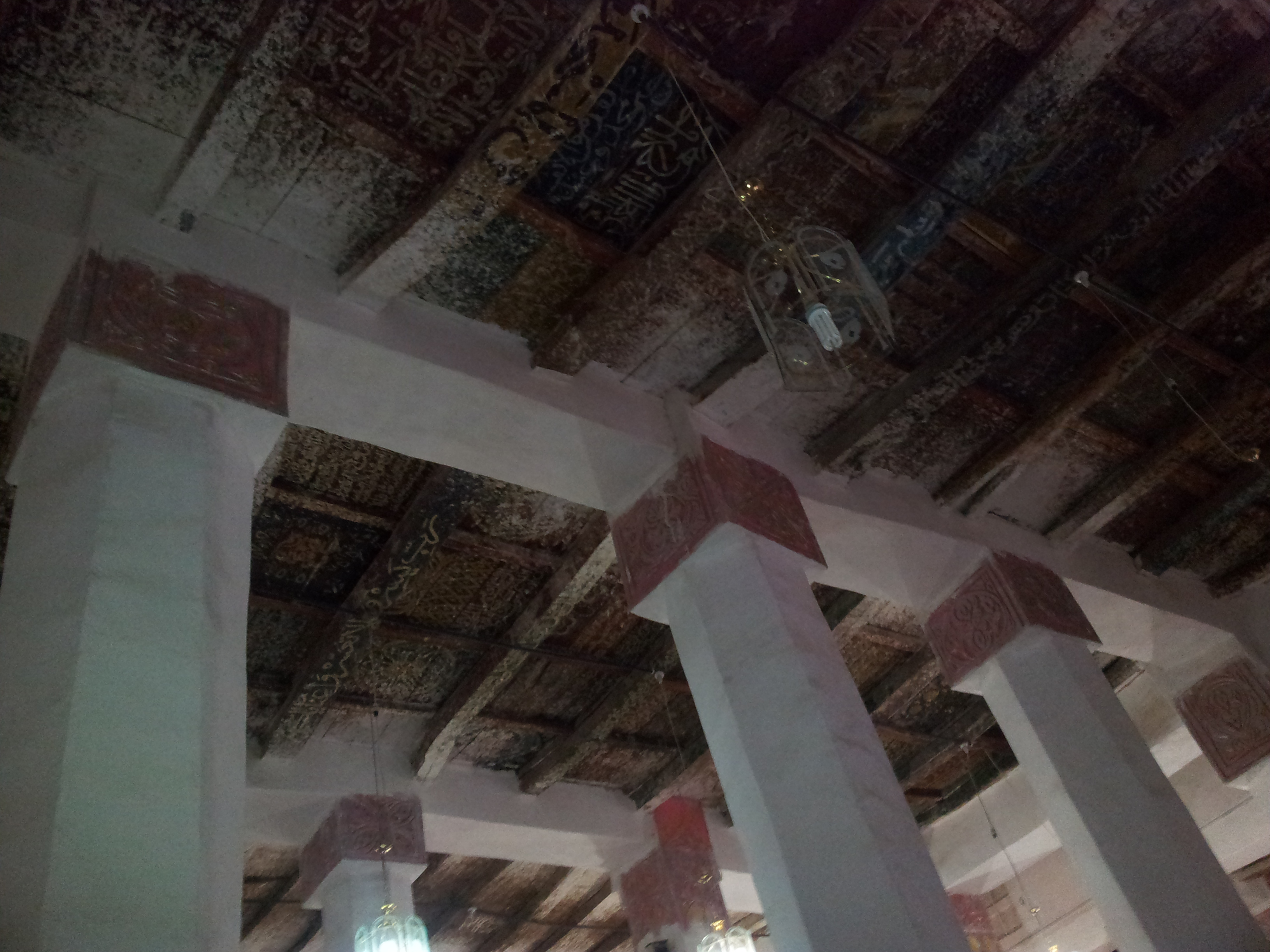 wooden ceiling, Arwa al-Sulayhi